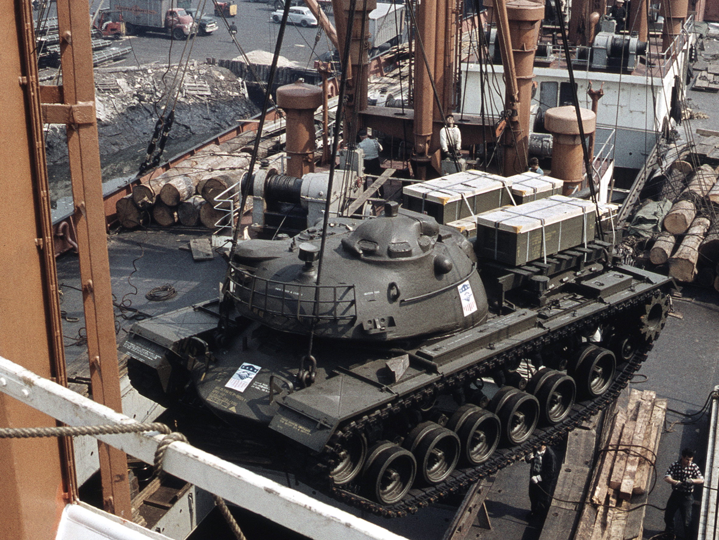 Loading of a cargo ship at the port of New York, Brooklyn - 1959